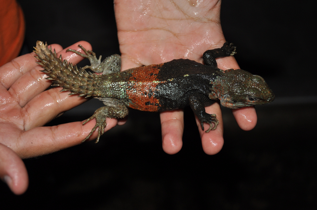 Yucatán Spiny Tail Iguana (Ctenosaura defensor), a very rare and beautiful species. This is a captive male. Endemic to the Yucatán peninsula. This and C. alfredschmidti may soon be grouped within their own genus, Cachryx.